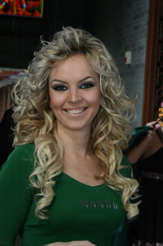 Miss Albania 2007 Elda Dushi in Miss World 2007, Sanya-China